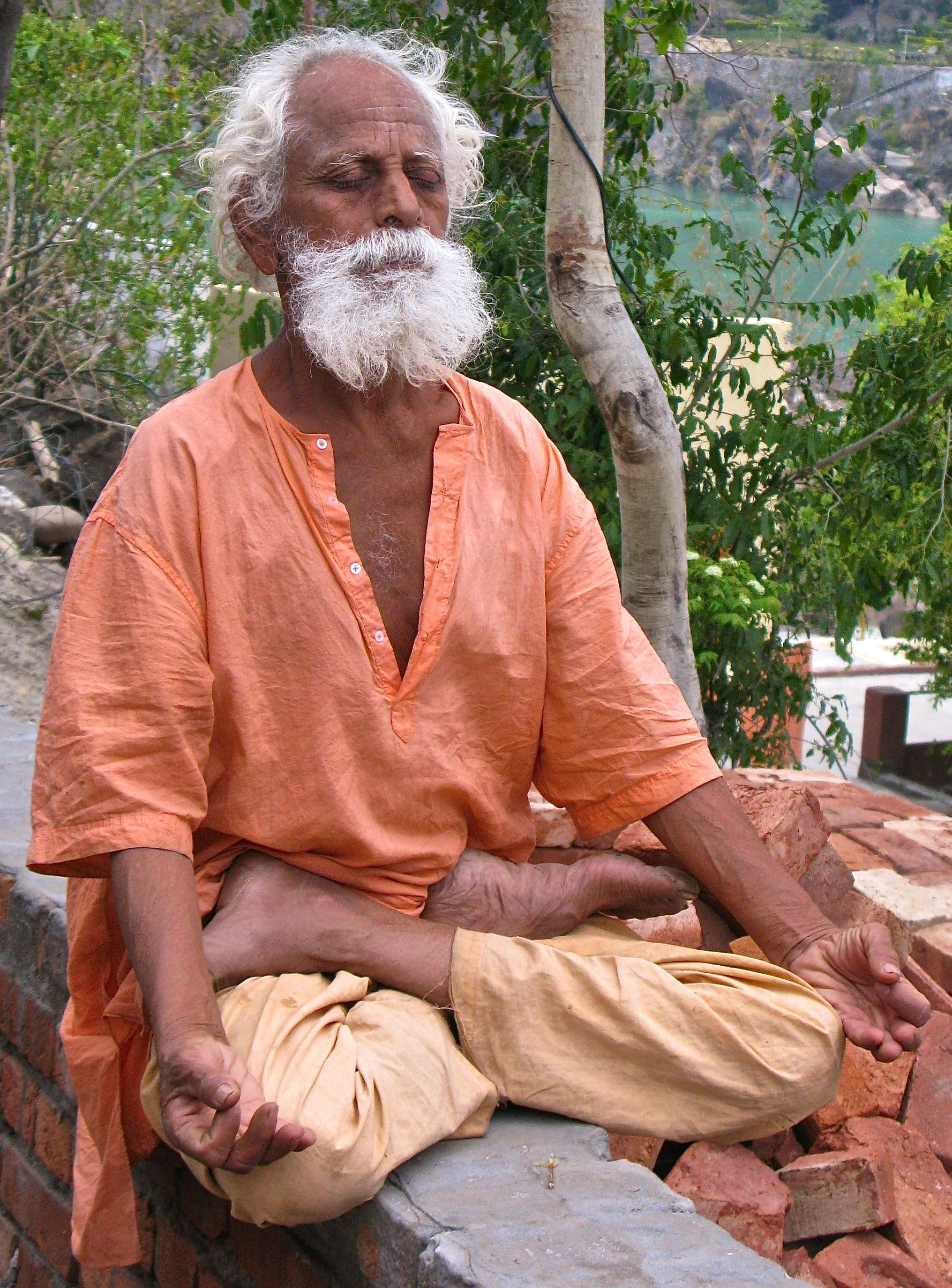 Sanyassin meditating in Padmasana beside the River Ganges at Rishikesh